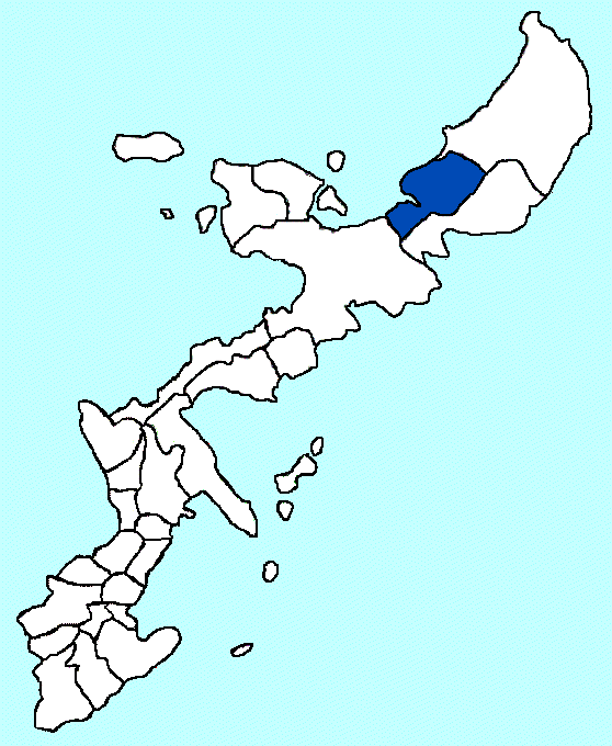 The location of Ogimi Village in Okinawa.